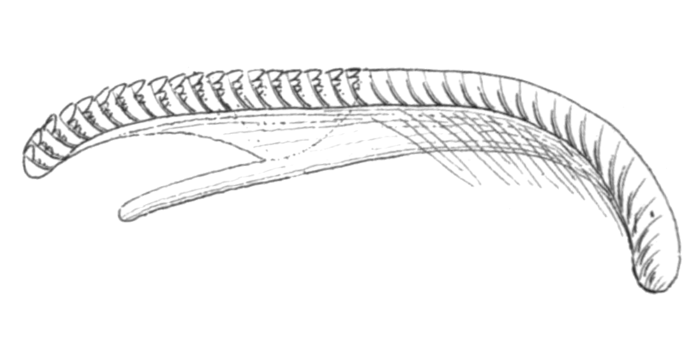 Drawing of lateral view of the radula of Fiona pinnata. Anterior end is on the left.